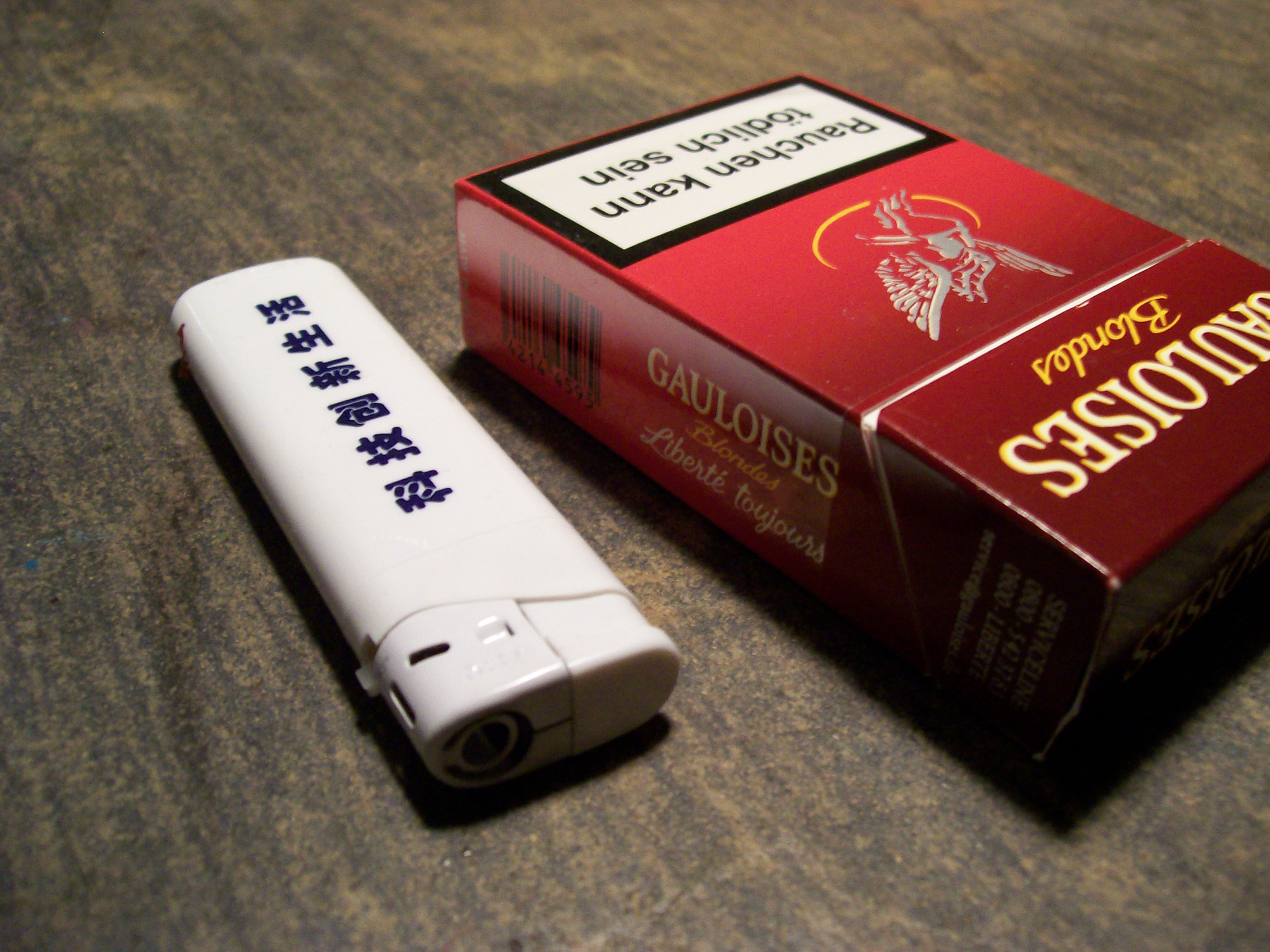 Gauloises red german and asian white lighter.